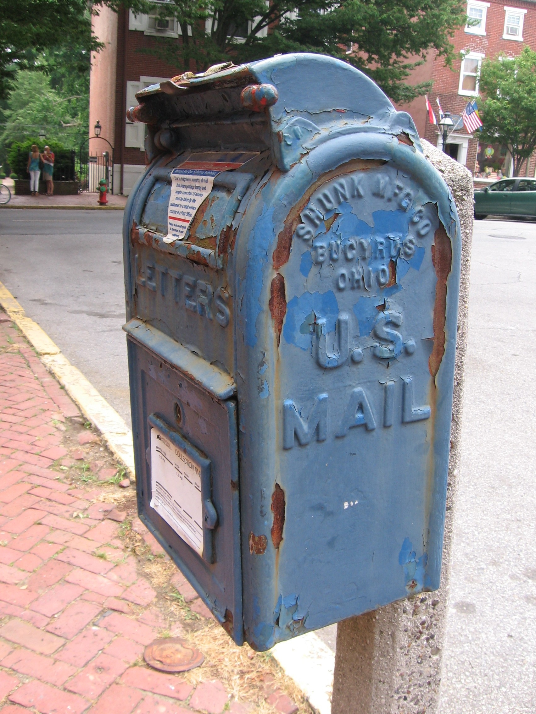 Old mail box, Newcastle, Delaware